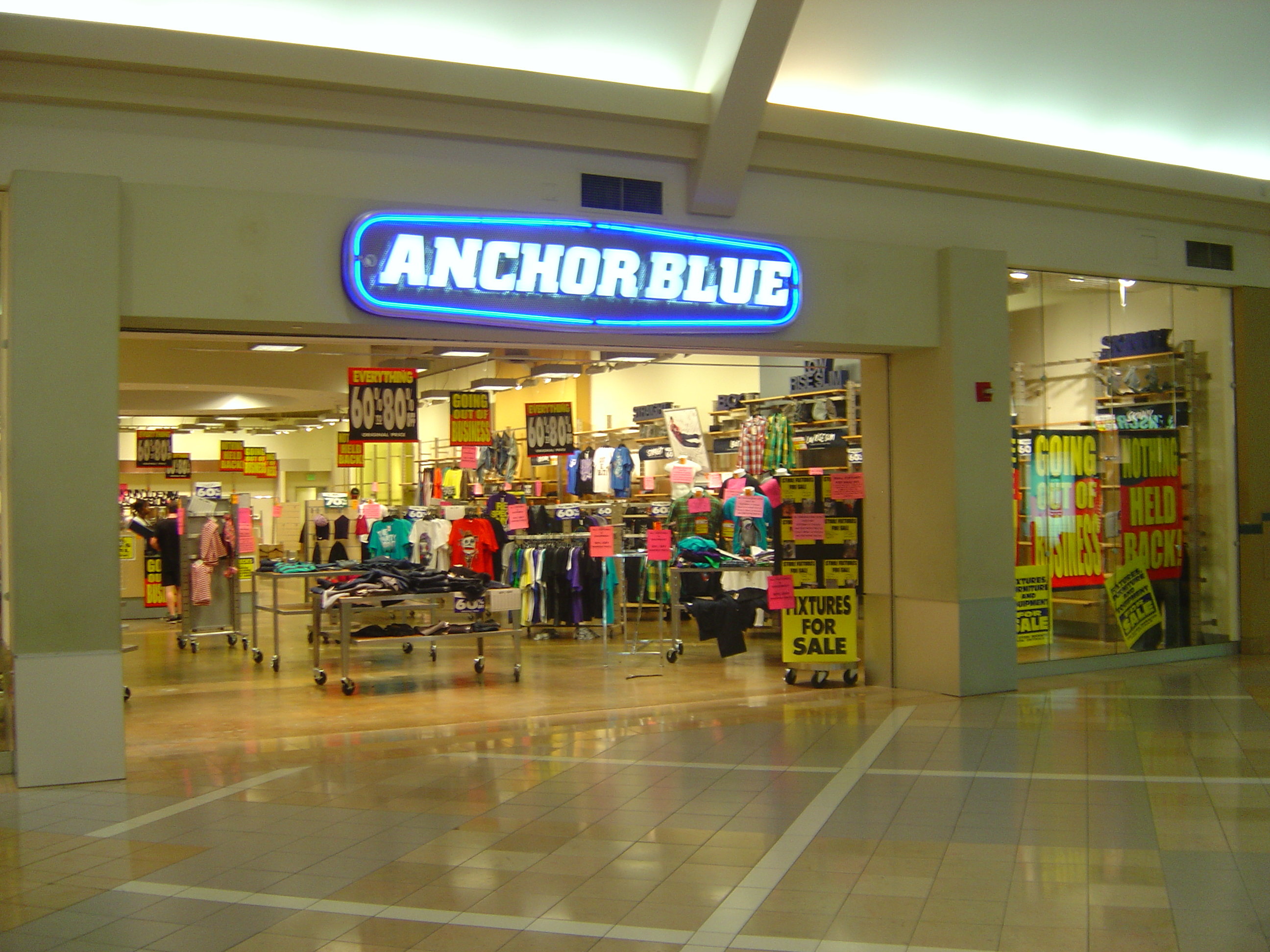 The former Anchor Blue store inside Laguna Hills Mall, during its liquidation sale.